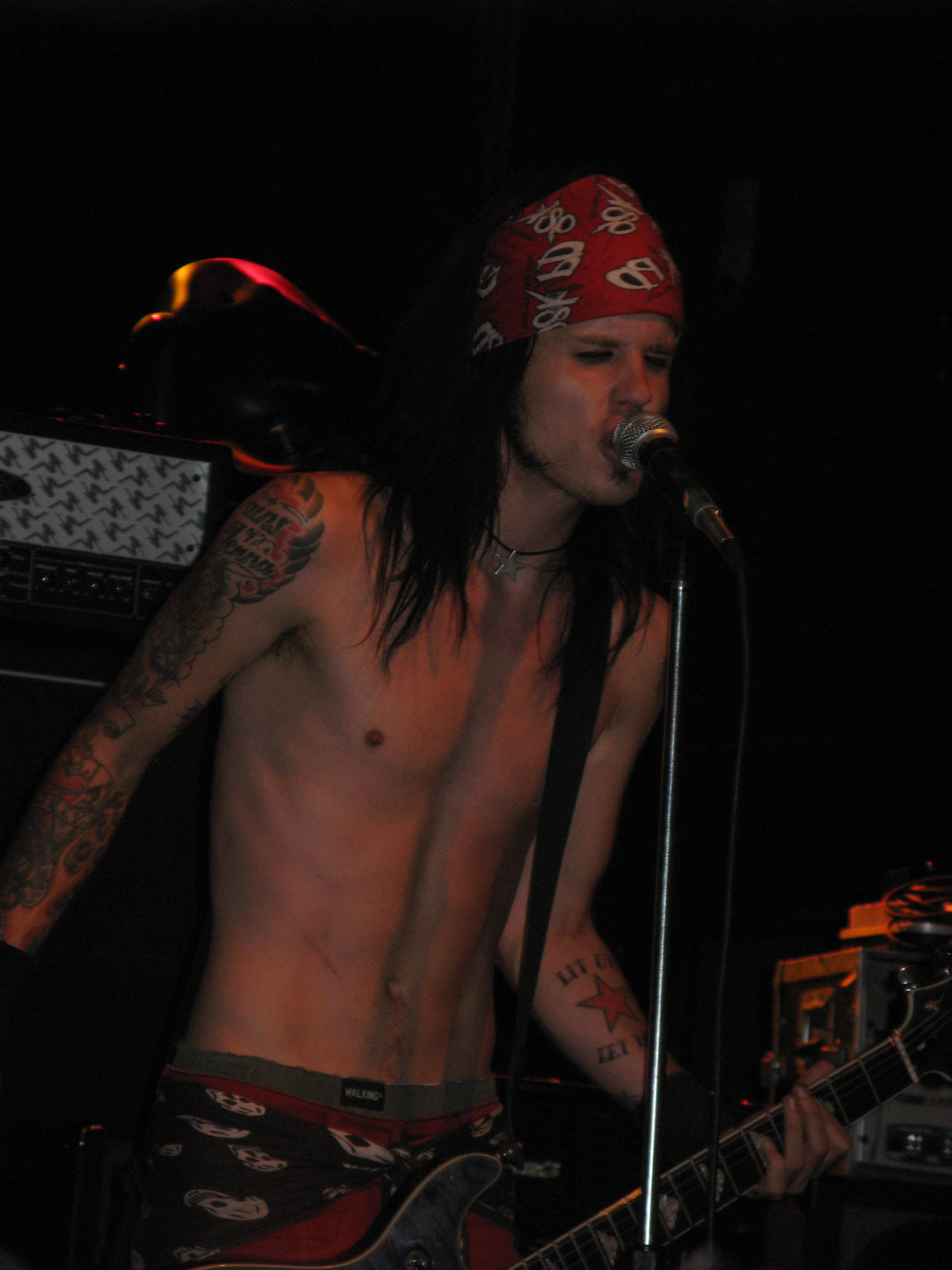 i took this photo at a concert in 2007... i actually had a photography pass to this show, which was the Bam Margera Presents Viva La Bands tour Tempe stop.